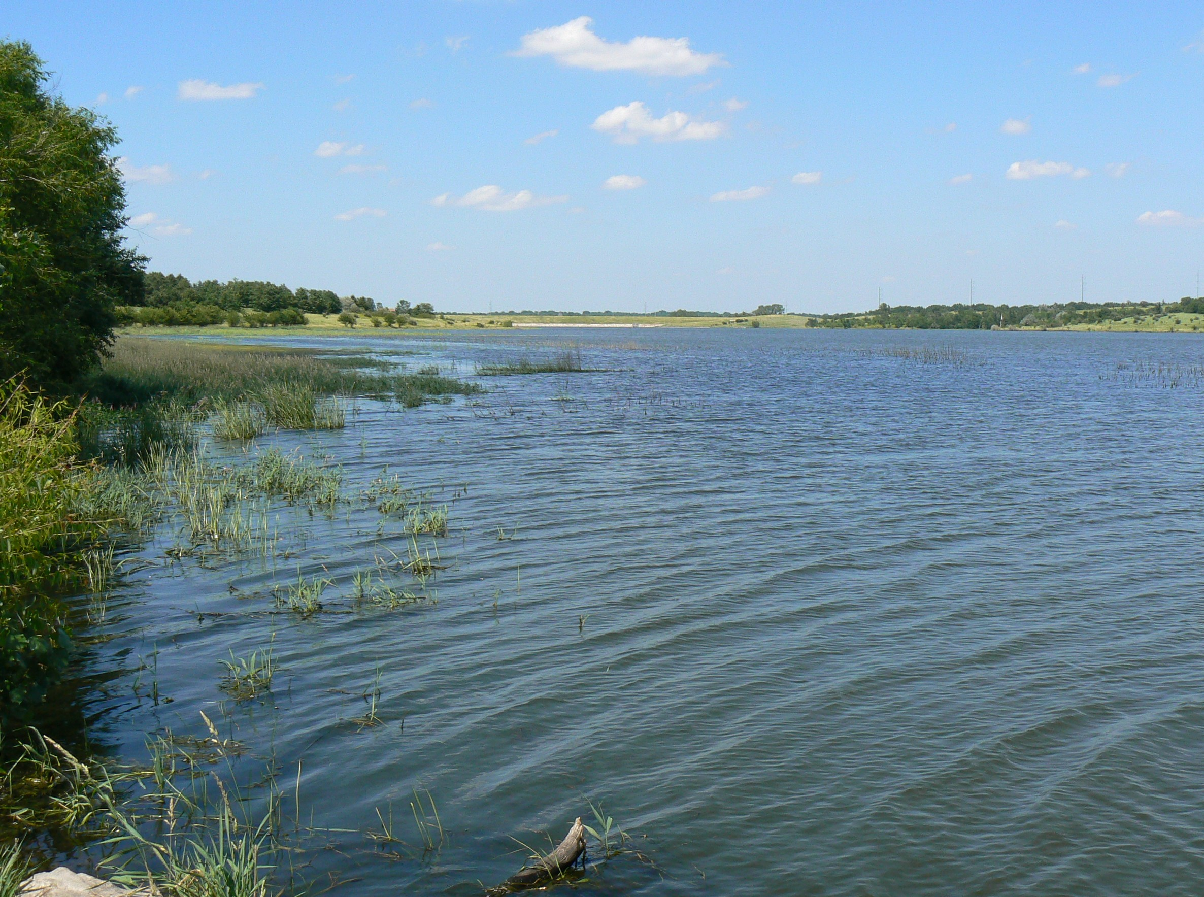 Wehrspann Lake at Chalco Hills Recreation Area is a man made lake covering 246 acres (99 ha)